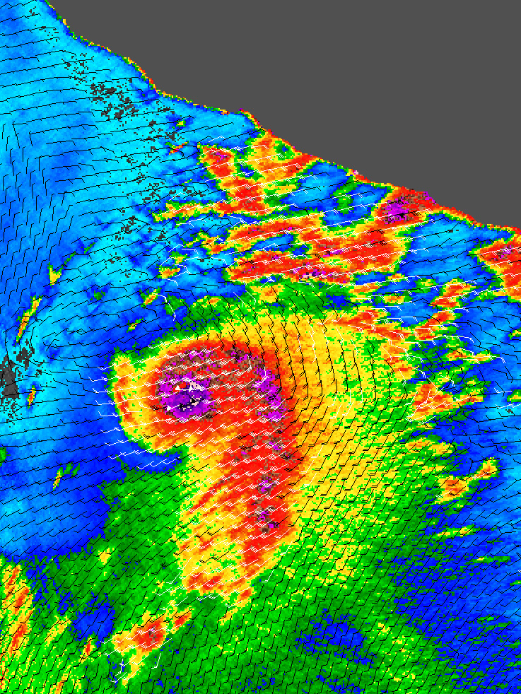 For the first time since 1961, two tropical storms formed in the month of November in the Eastern Pacific. The first was Tropical Storm Rosa. On November 13, 2006, Tropical Storm Sergio became the second tropical storm of the month. Sergio, unlike Rosa, continued to build in power to reach hurricane status, making it the tenth hurricane of the 2006 Eastern Pacific storm season. While the hurricane season officially runs until the end of November, late storms are unusual. Only five other storms on record have formed later in the season than Sergio. It is also unusual for tropical storms that form this late in the season to intensify all the way to hurricane strength as Sergio had done. This data visualization shows Sergio while it was a Category Two strength hurricane early in the morning of November 16. The image depicts wind speed in color and wind direction with small barbs. White barbs point to areas of heavy rain. The data were obtained by NASA’s QuikSCAT satellite on November 16, 2006, at 12:29 UTC (5:29 a.m. local time). Sergio appears to be have a well-defined and circular core, with a long apostrophe-shaped tail streaming out from this mature well-formed core. However, the wind-direction barbs do not spiral around the center of the storm as they would in a classical strong hurricane, hinting that winds are not symmetrical around the storm and that they may be pulling apart the storm. QuikSCAT employs a scatterometer, which sends pulses of microwave energy through the atmosphere to the ocean surface, and measures the energy that bounces back from the wind-roughened surface. The energy of the microwave pulses changes depending on wind speed and direction, giving scientists a way to monitor wind around the world. This technique does not work over land, and hence the lack of measurements over the mainland of Mexico shown here.